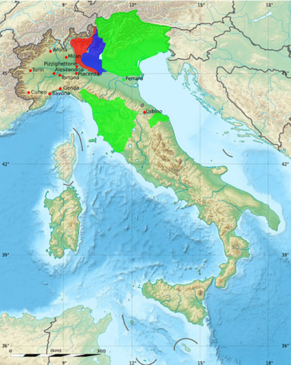 based on this, Ceded to French Neutral territory Retained by Austria From File:Italy relief location map-blank.jpg